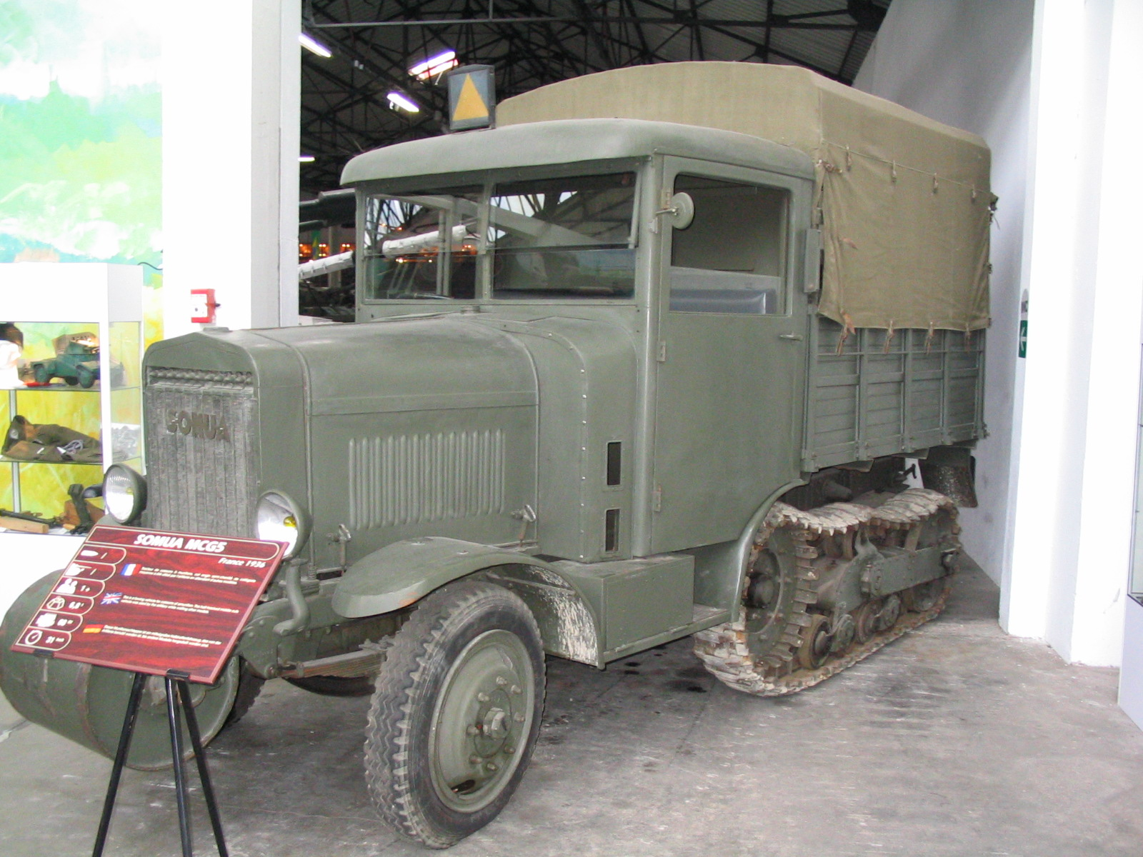 The SOMUA MCG5 at Saumur